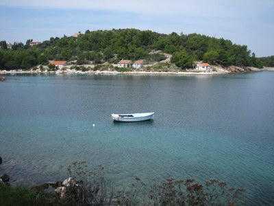 Valdkarke Bay at the island of Losinj, Croatia / Uvala Valdarke na Losinju